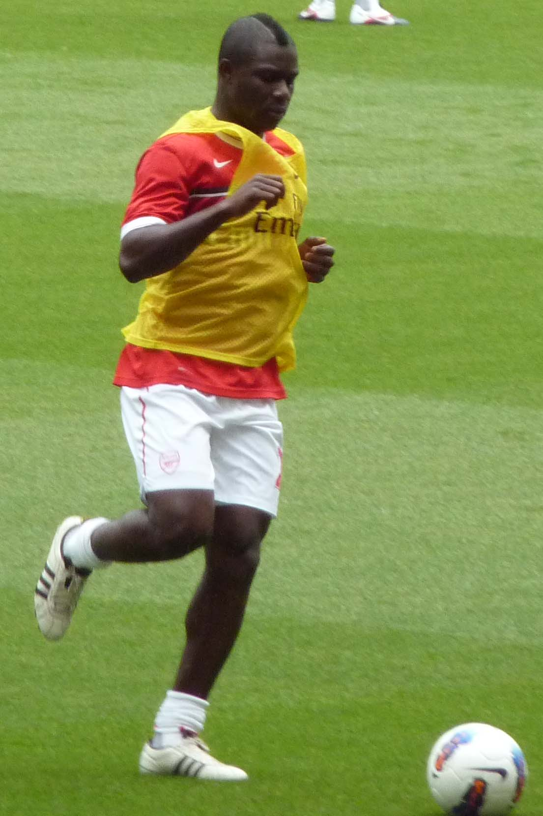 Before Arsenal vs Swansea on September 10, 2011